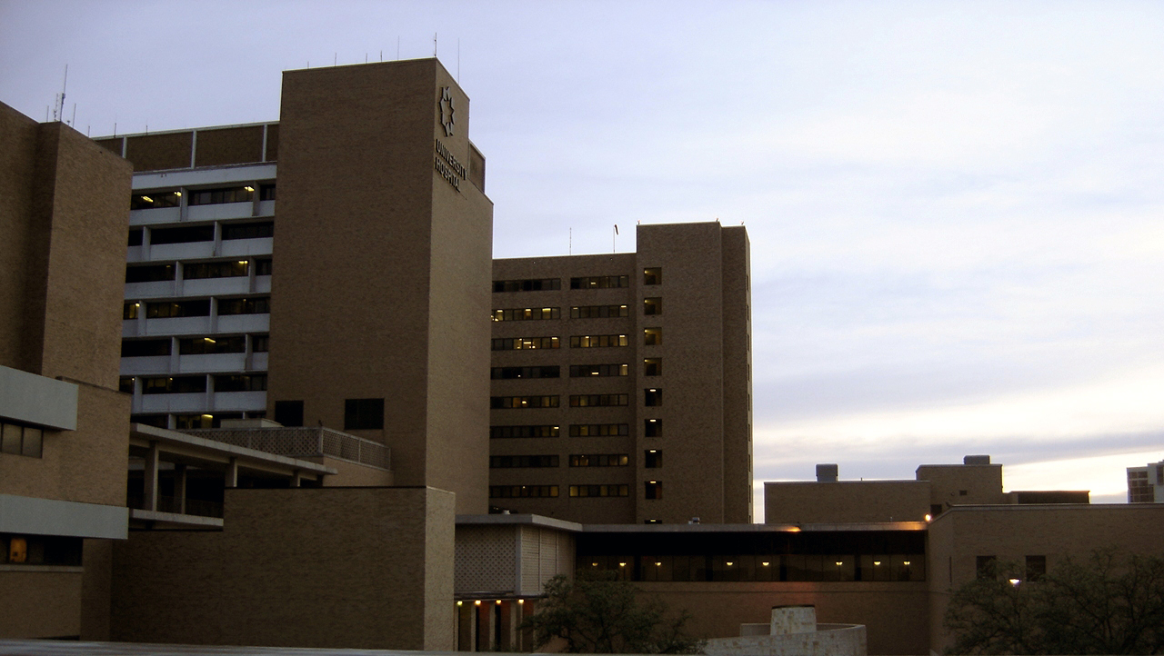 University Health System main facility, South Texas Medical Center.